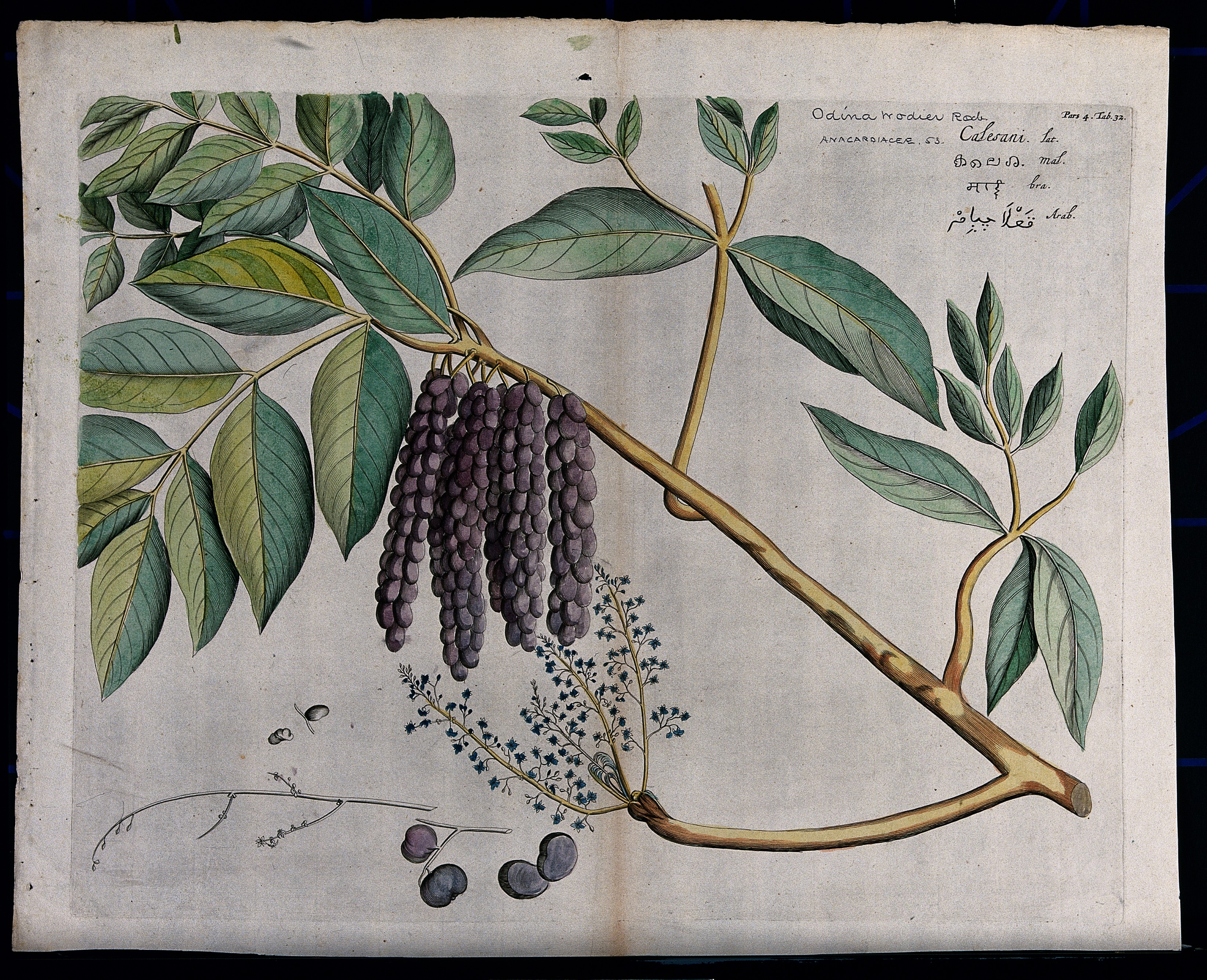 kalesjam, Rheede, Hortus Malabaricus, vol. 4:67-68, t32 Lannea coromandelica (Houtt.) Merr.: branch with leaves, flowers and fruit and sections of inflorescence, fruit and seed. Coloured line engraving. Iconographic Collections Keywords: lannea; engravings; Anacardiaceae; botany - pre-linnaean works; Hendrik Adriaan van Reede tot Drakestein; botany - india - malabar coast; scientific illustrations